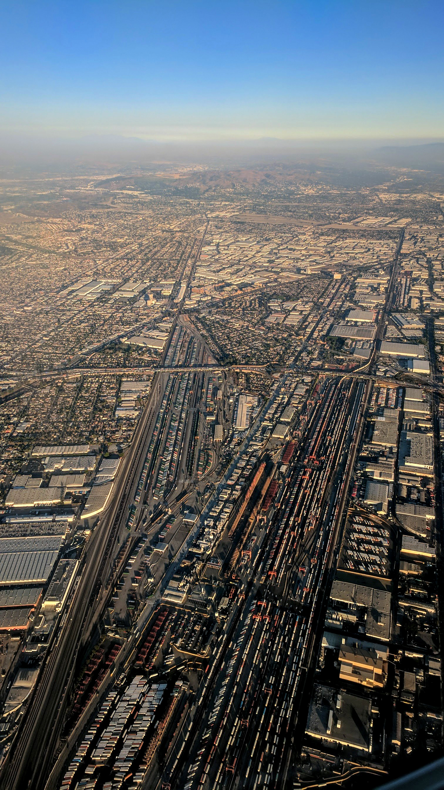 Late afternoon aerial photograph from the west, of rail yards in Commerce, California, left, and Vernon, California, Right. The upper center industrial/commercial area is mostly Commerce.